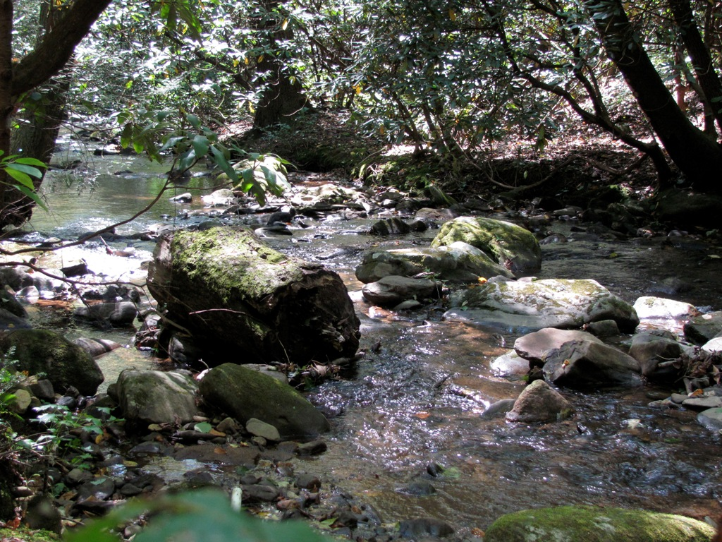 Frogtown Creek running through the center of DeSoto Campground